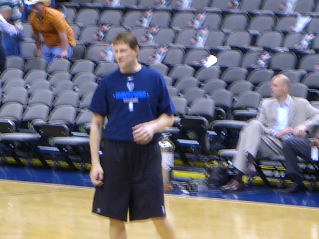 Picture by Nick Juhasz.